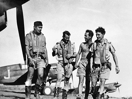 Port Moresby, New Guinea. August 1942. Kittyhawk fighter pilots of No. 75 Squadron RAAF, during a break in operations against the Japanese. Left to right: Flight Lieutenant (Flt Lt) L. D. Wintlen; Squadron Leader (Sqn Ldr) L. D. Jackson, Commanding Officer of the Squadron, who with his older brother, Sqn Ldr John Jackson (killed in action 28 April 1942), Flt Lt J. W. W. Piper and Flying Officer P. A. Masters fought fearlessly with the rest of the outnumbered Squadron.